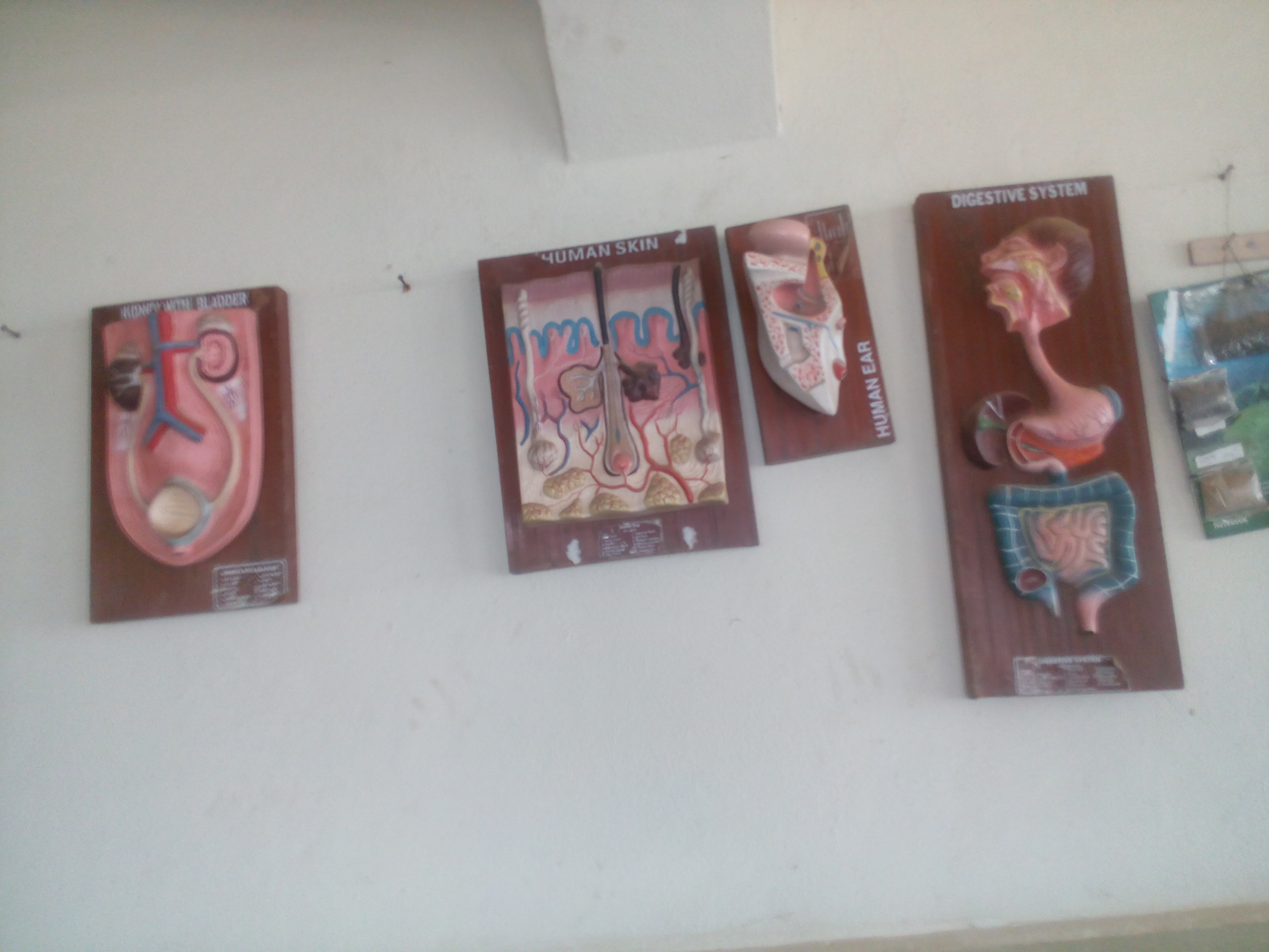 प्रतिकृती